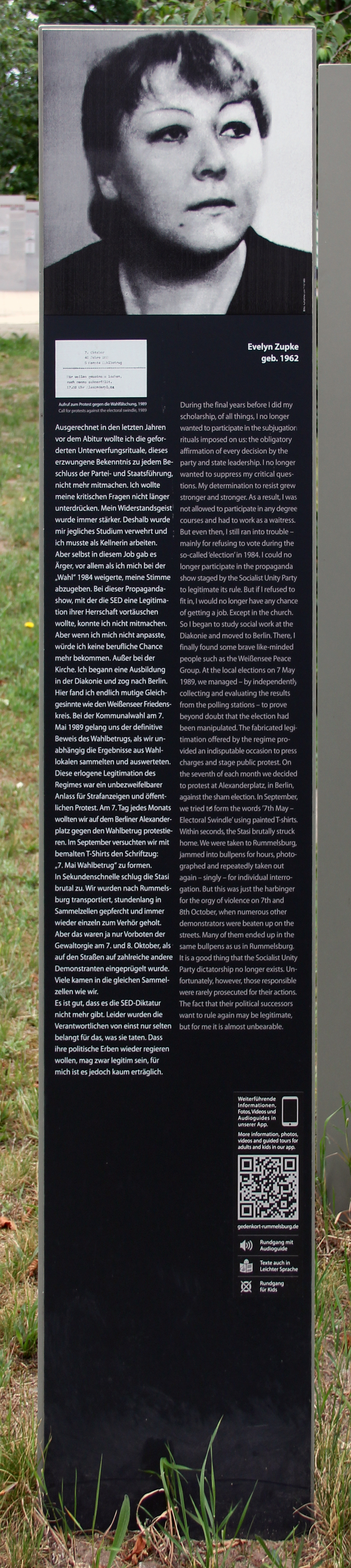 Memorial plaque, Evelyn Zupke, Friedrich-Jacobs-Promenade, Berlin-Rummelsburg, Deutschland